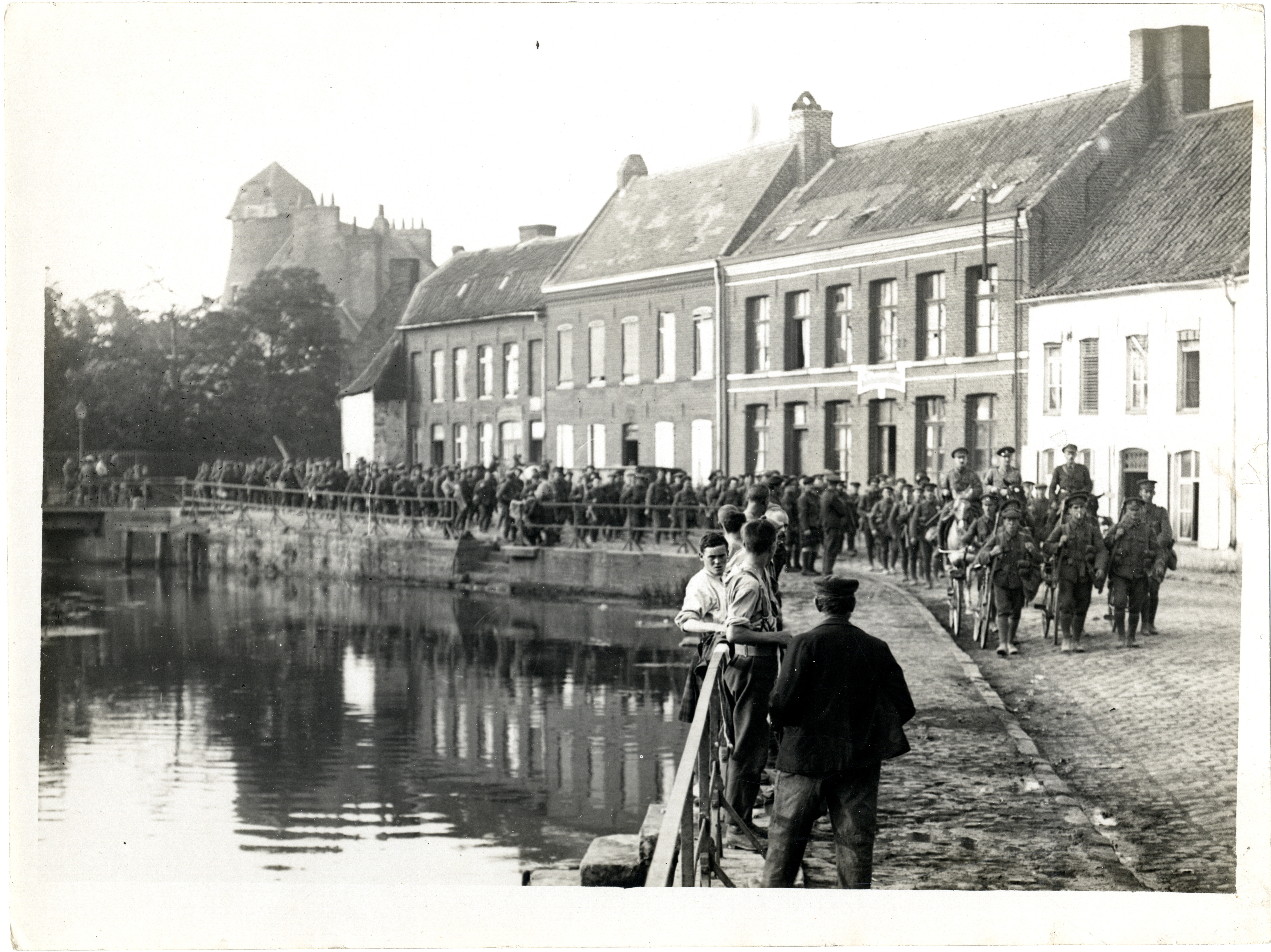 Reference: Photo 24/(336) From the Girdwood Collection held by the British Library. This image is part of the Europeana Collections 1914-1918 Date: 28 Aug 1915 See also: - View this at the British Library's site - Browse this collection on Europeana - and on Wikimedia Commons Please consider donating to the British Library.